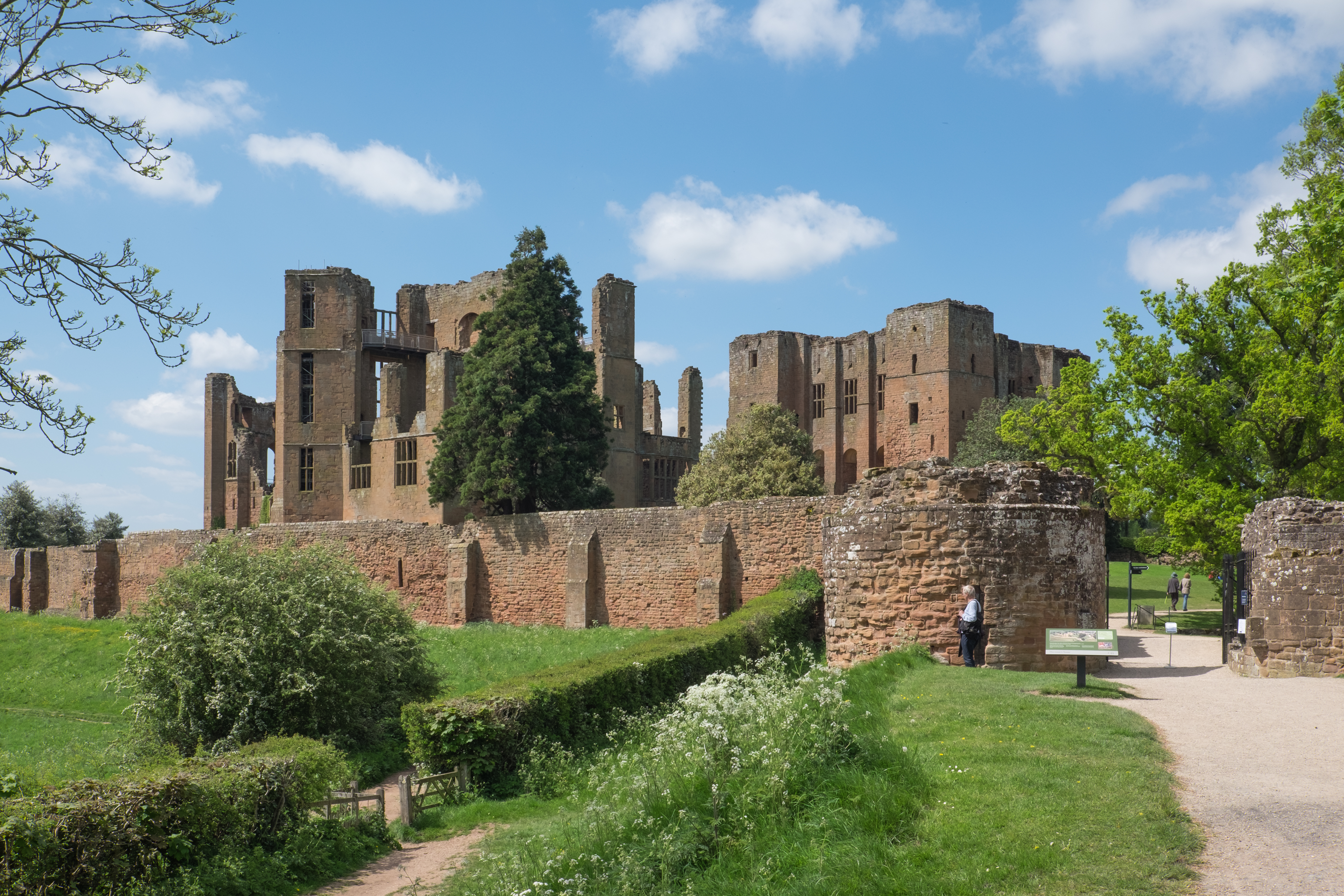 The ruins of Kenilworth Castle. This is a Grade I listed building in England.